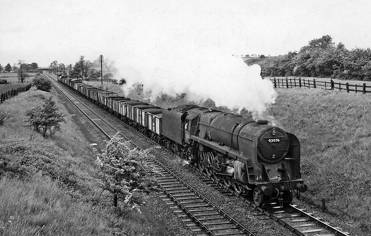 Up main line freight near Braunston & Willoughby. View northward on the former Great Central main line (London Marylebone - Sheffield), north of site of Braunston & Willoughby. This is probably one of the Annesley - Woodford 'Runners', headed by BR Standard 9F 2-10-0 No. 92076.